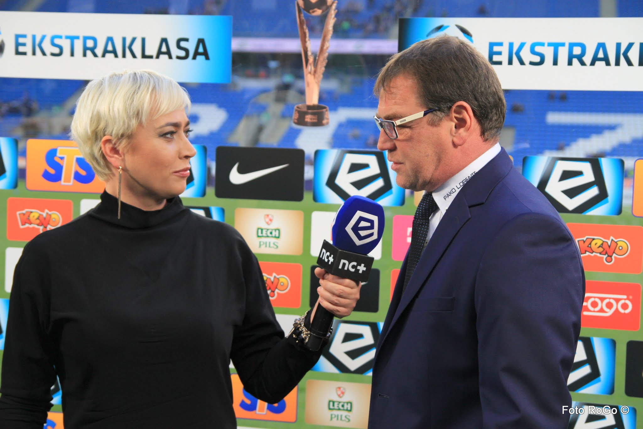 Jan Urban interview before Lech Poznań - Górnik Zabrze, Ekstraklasa game (2015-11-08).